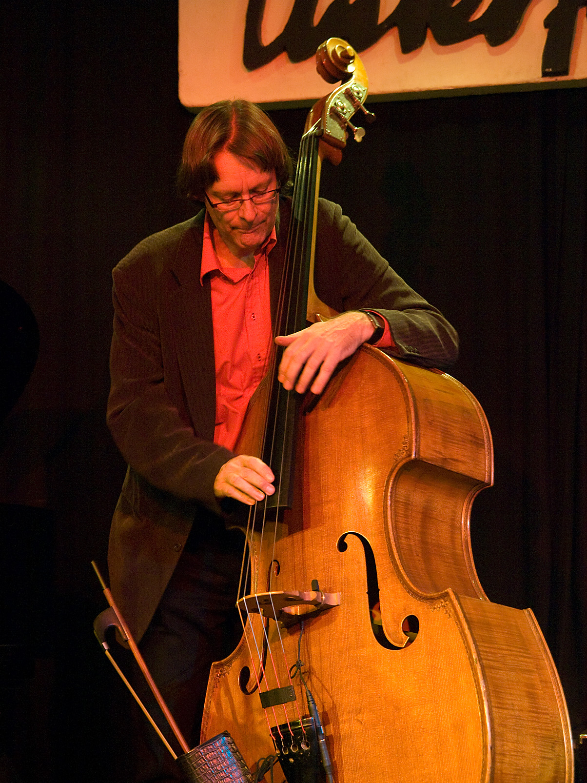 Thomas Stabenow, double bass, picture taken in Jazz club "Unterfahrt" in Munich/Germany